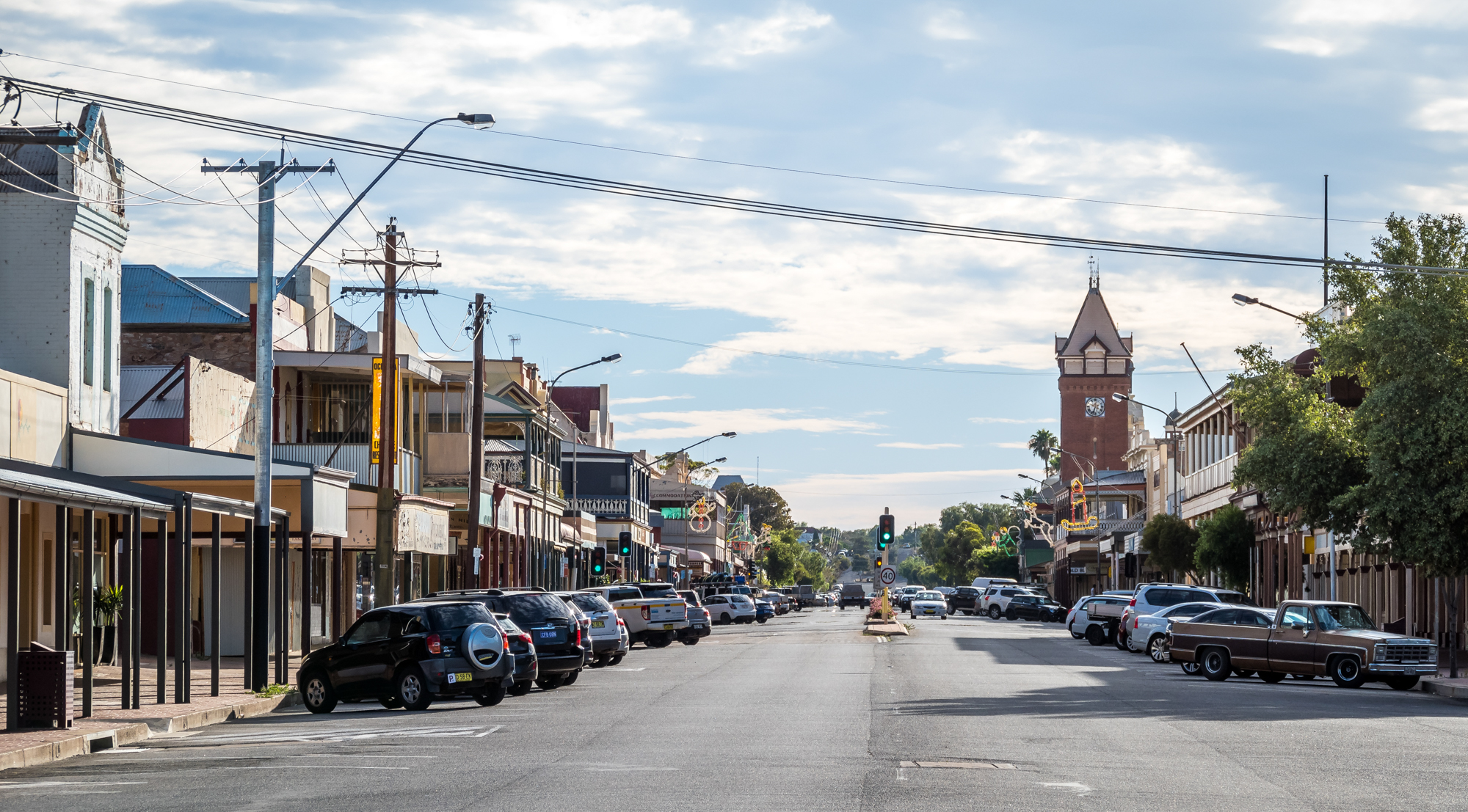 Argent Street. Photographed in Broken Hill, NSW, Australia. 12 January 2017